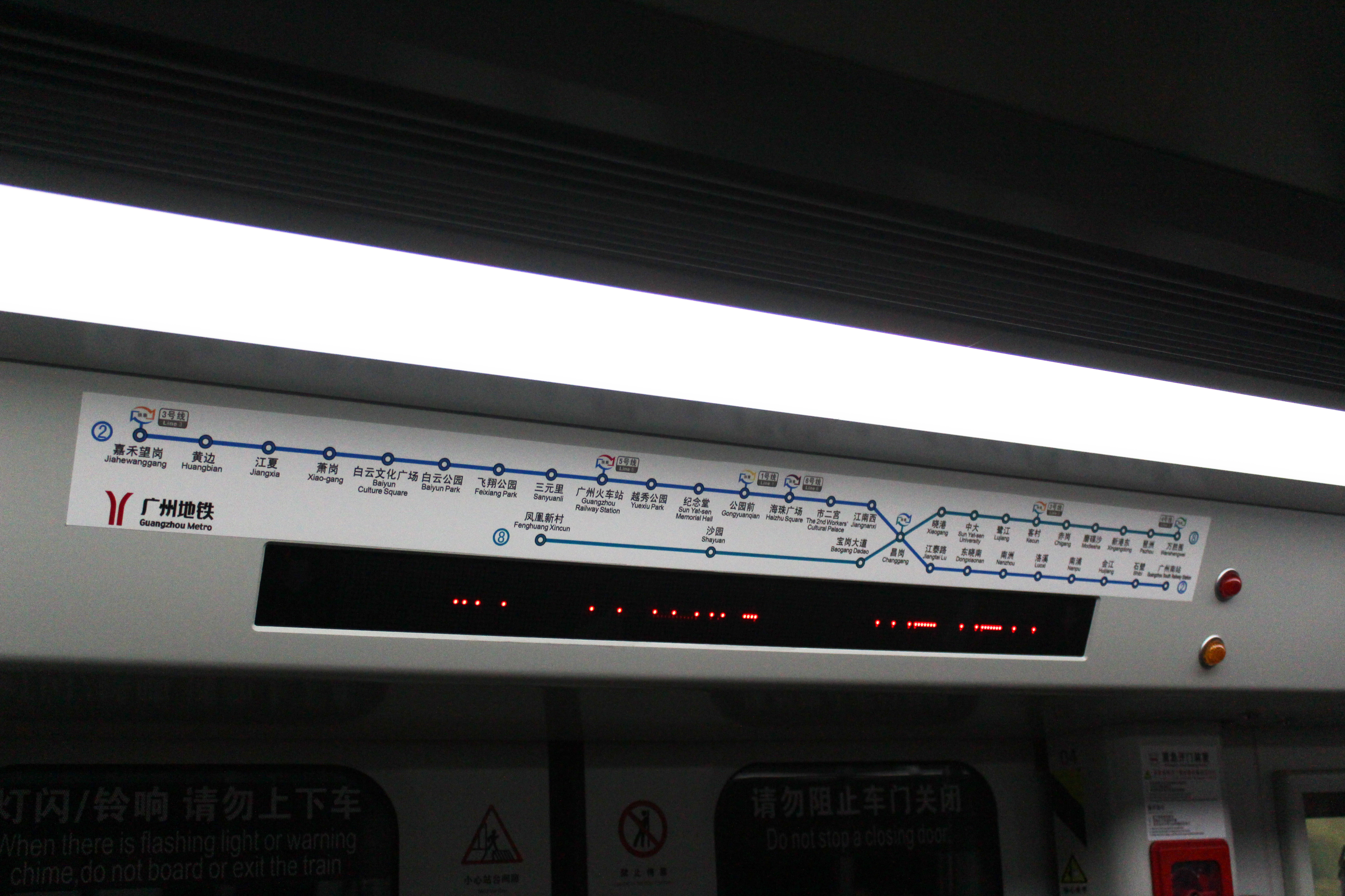 Guangzhou Metro Line 2-CSR L5 train-LED Infomation